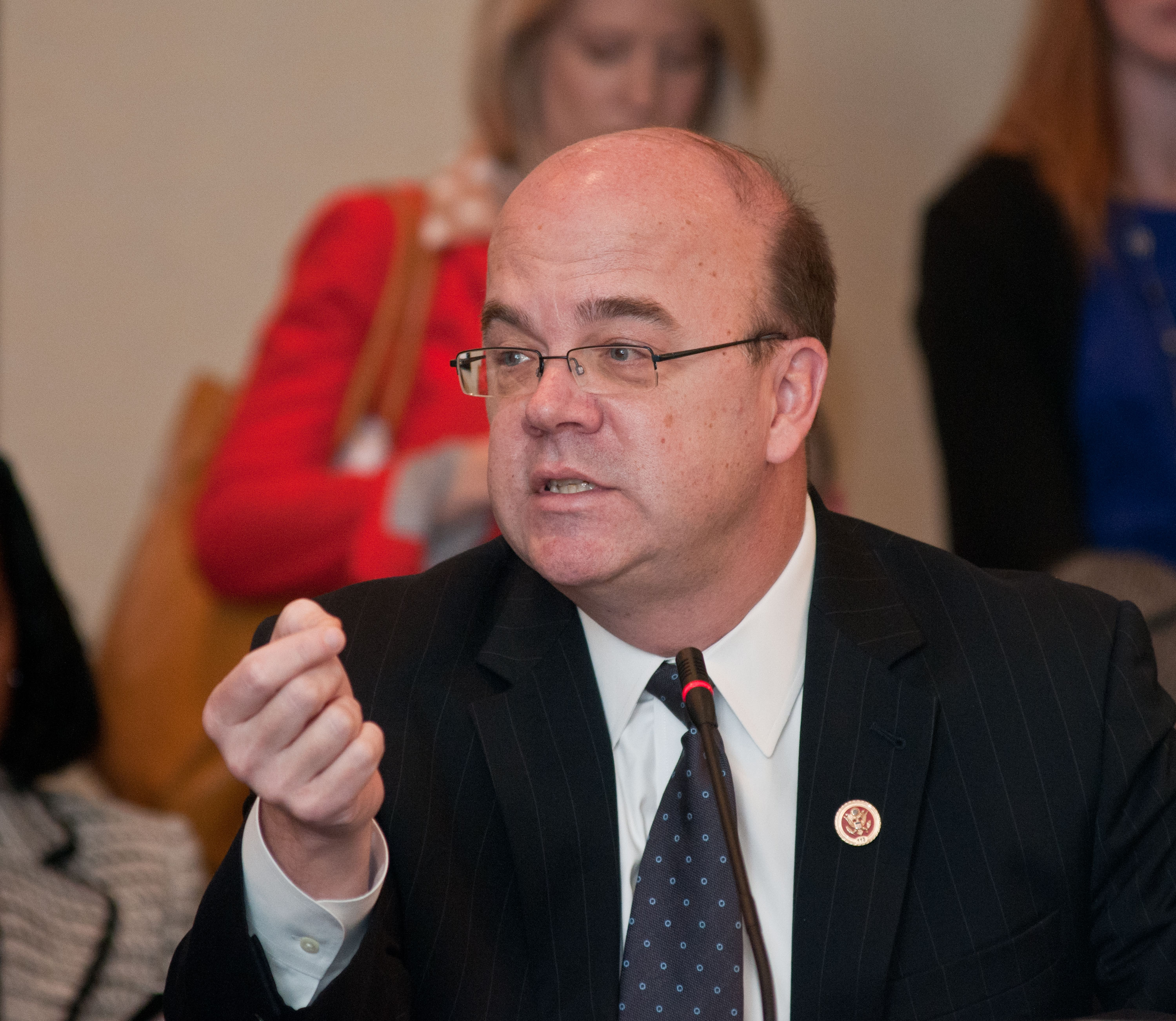 U.S. Representative Jim McGovern addresses the Food Policy session of the United States Conference of Mayors 81st Winter Meeting, in Washington D.C., on Thursday, Jan 17, 2013. He talks about pursuing multiple solutions to food issues in American cities and addressing the political aspect of ending hunger in cities. USDA Photo by Lance Cheung.